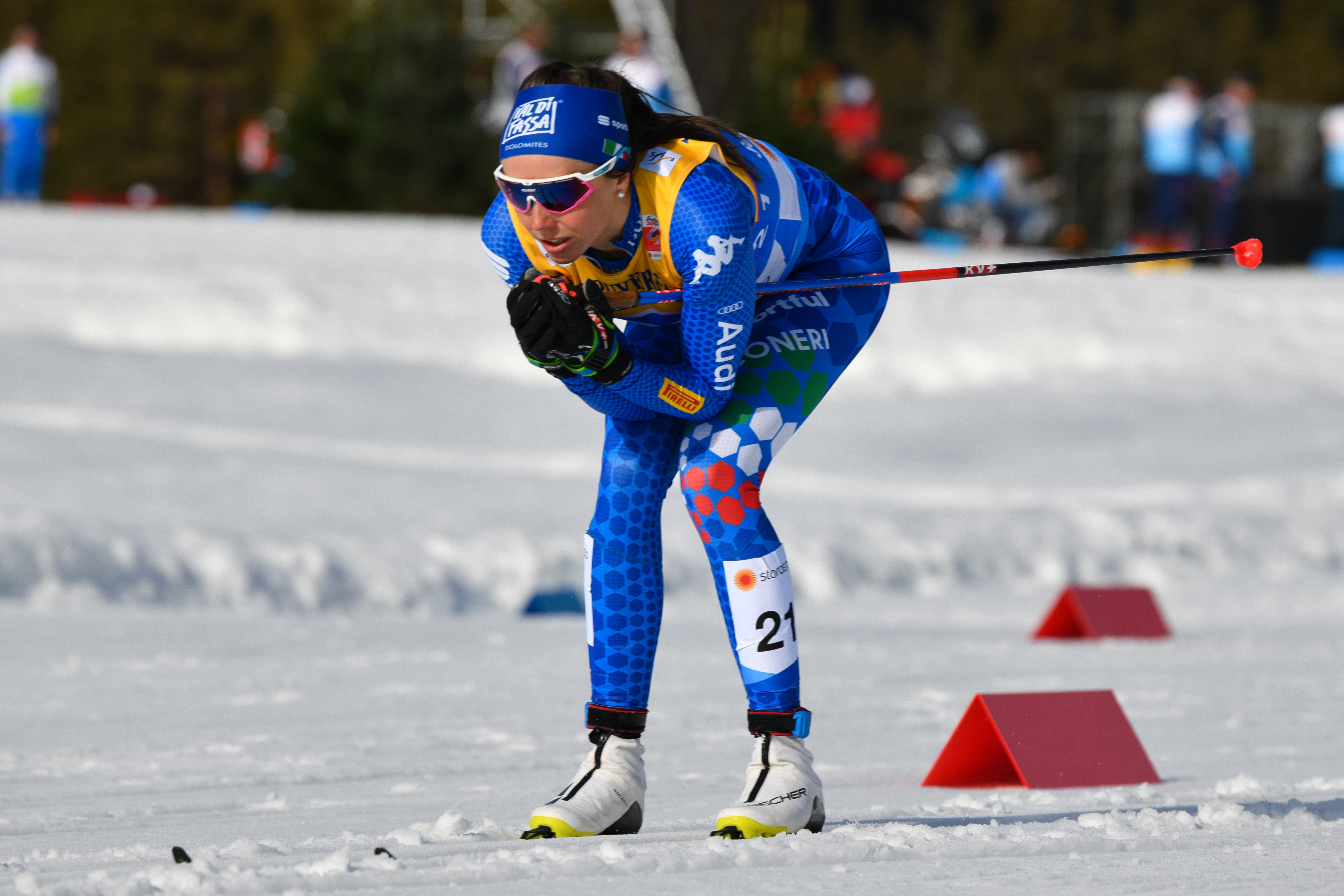 FIS Nordic World Ski Championships Seefeld 2019 - Ladies Cross Country 10km. Picture shows Caterina Ganz (ITA).